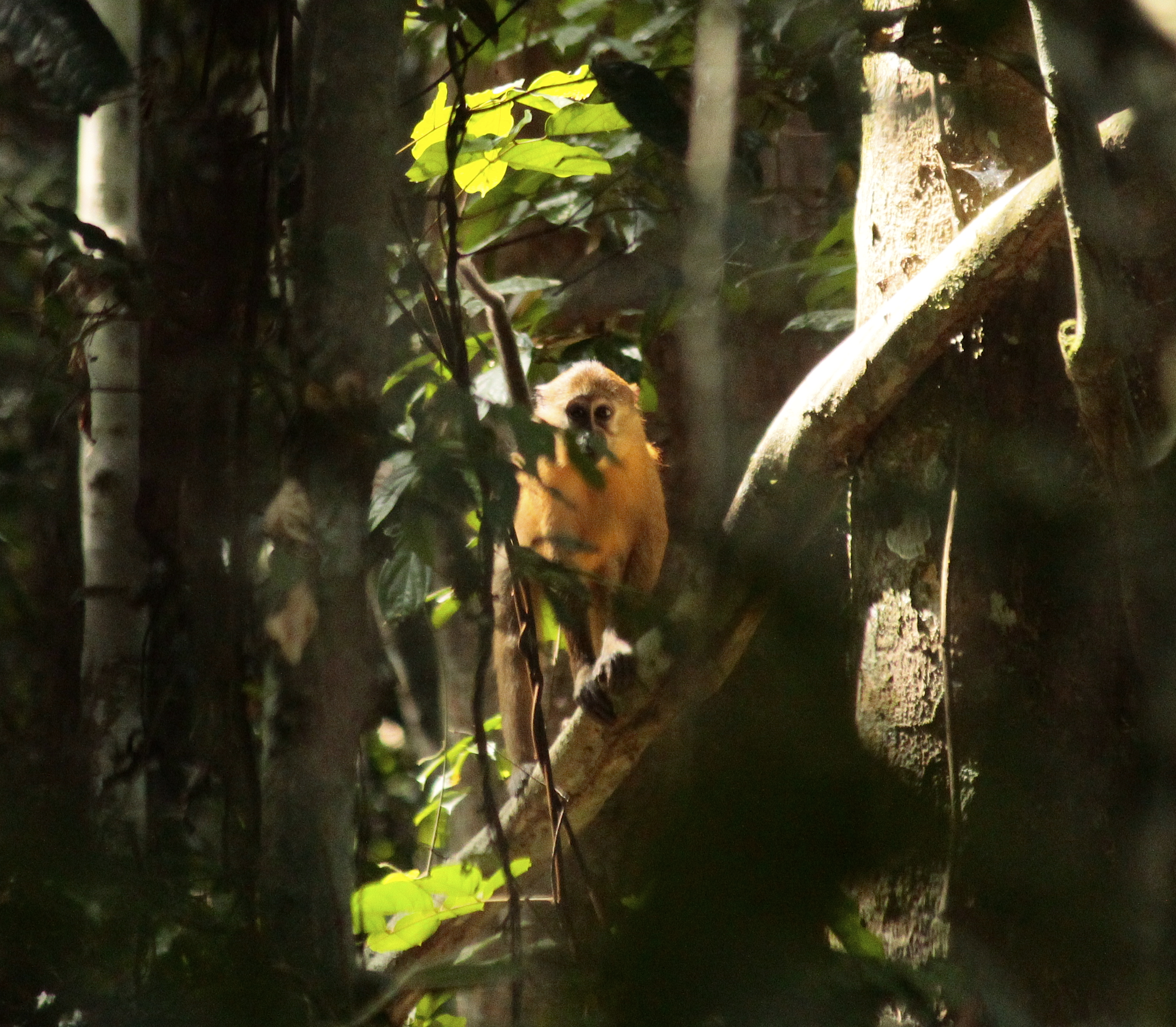 Golden Bellied Mangabey in the wild Only know image in the wild.